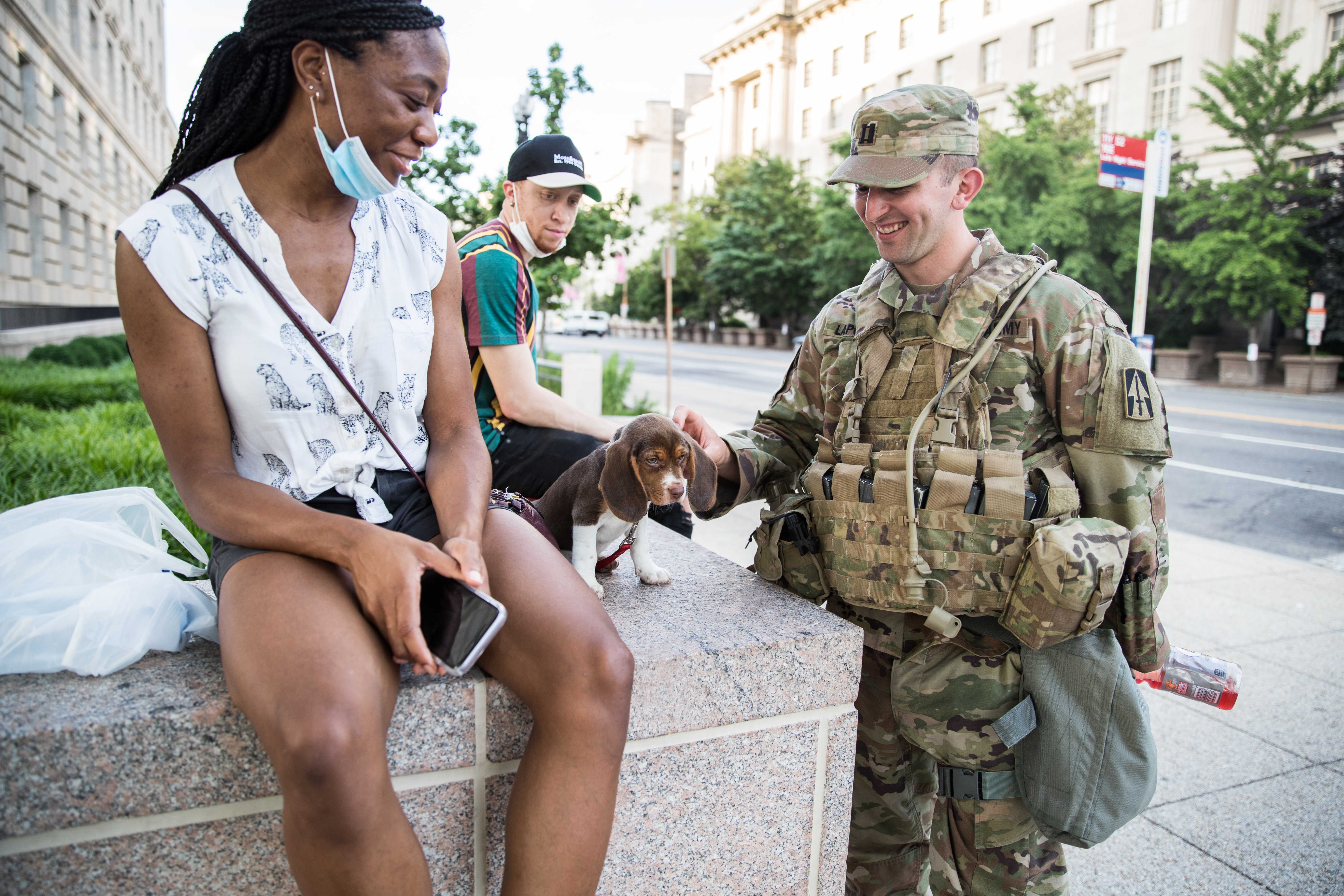 Nearly 400 Indiana National Guard Soldiers from the 76th Infantry Brigade deployed to the National Capitol Region to man traffic control points, support civil authorities and protect the right to peacefully protest in Washington, D.C. this week. Capt. Michael LaPorta stops to talk to a D.C. resident, a recent medical school graduate and pediatric doctor, to play with her dog while visiting Soldiers at traffic control points around the National Mall. (Photo by Staff Sgt. Jeremiah Runser)